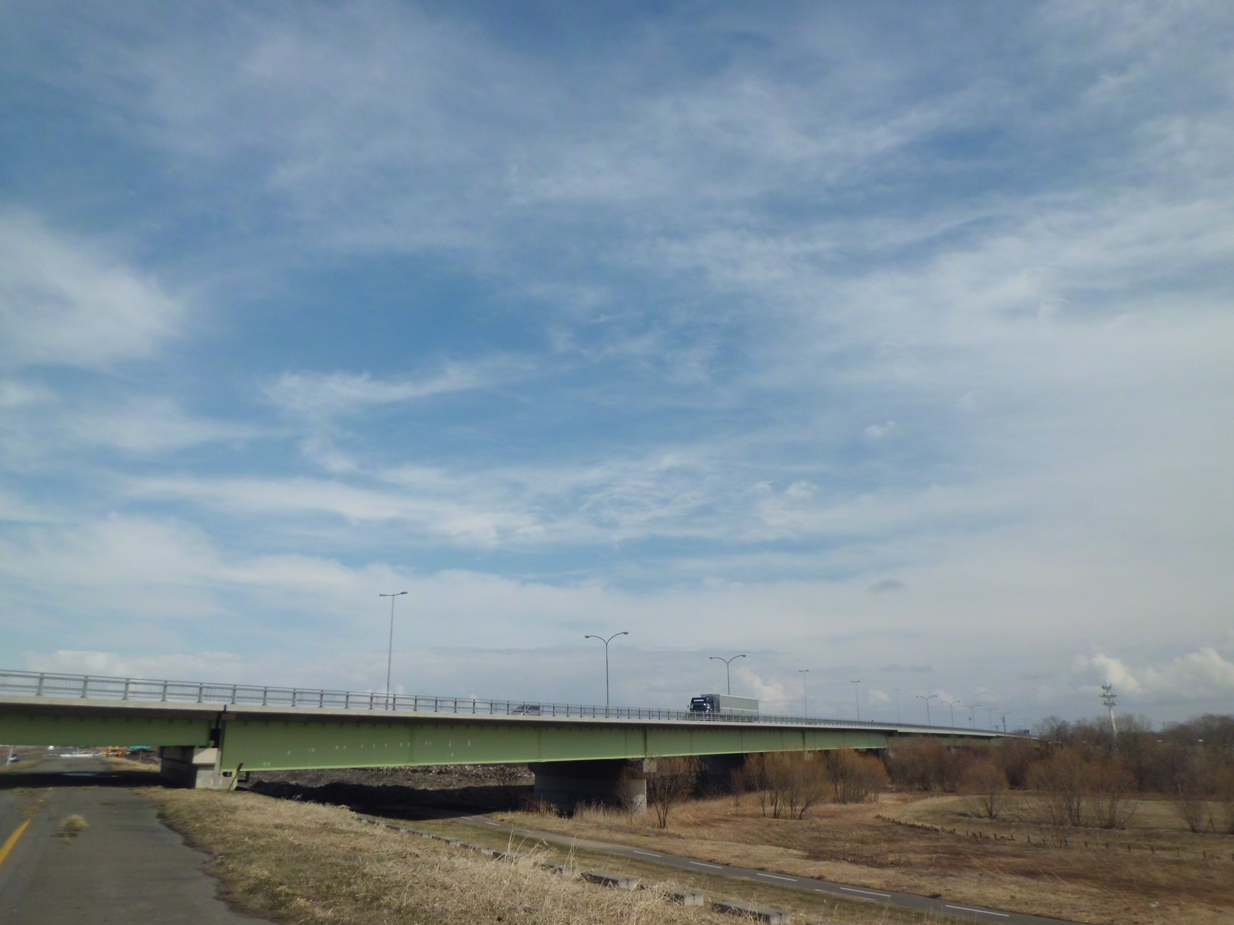 Kariki Great Bridge on Toyohira River. Looking the downstream direction from the western bank.